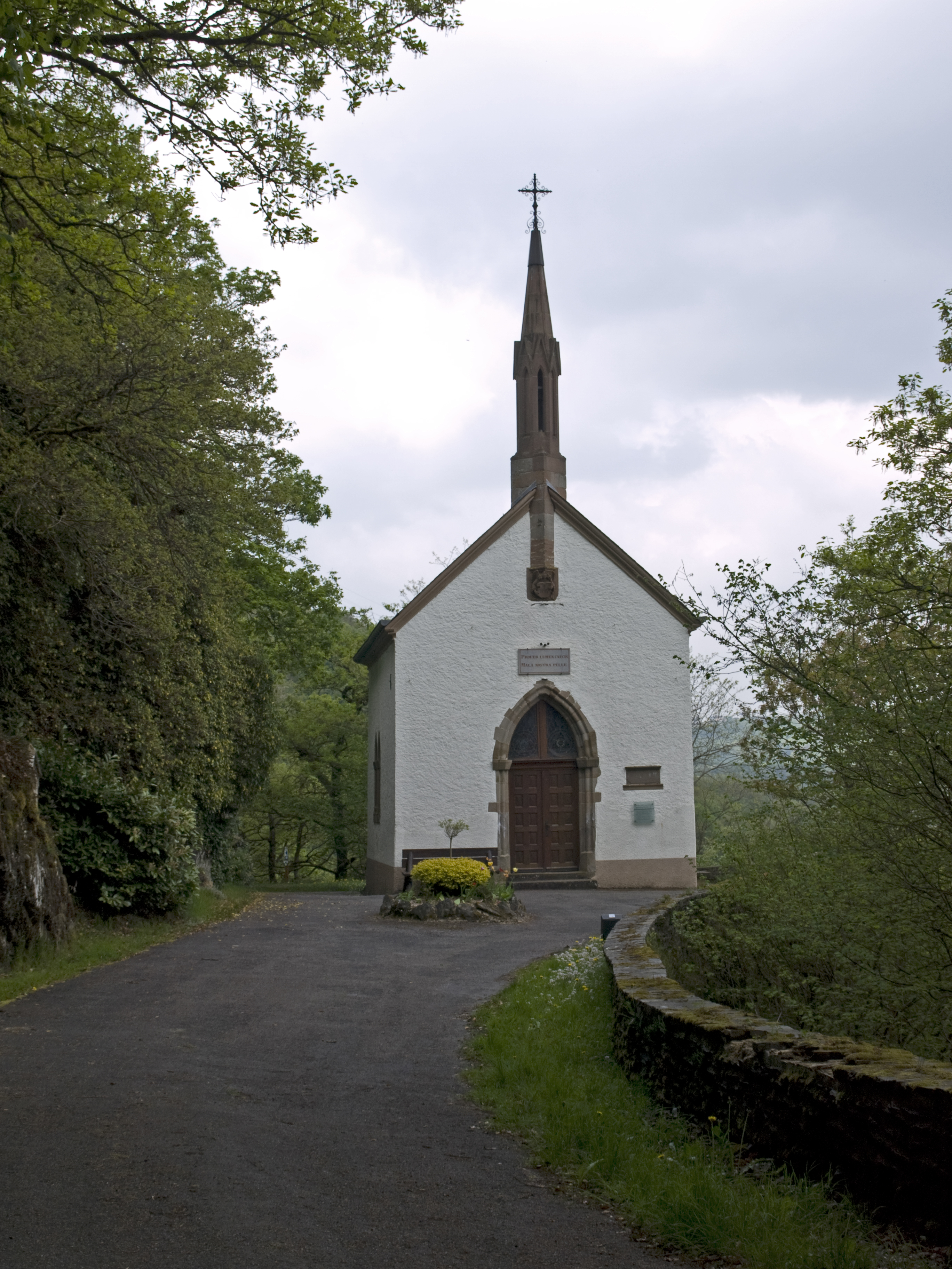 Chapelle Notre-Dame Bildchen, Vianden